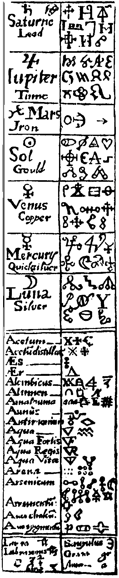 Alchemical symbols original caption: Basil Valentine, Last Will and Testament, London comment: unclear, he was dead at this time